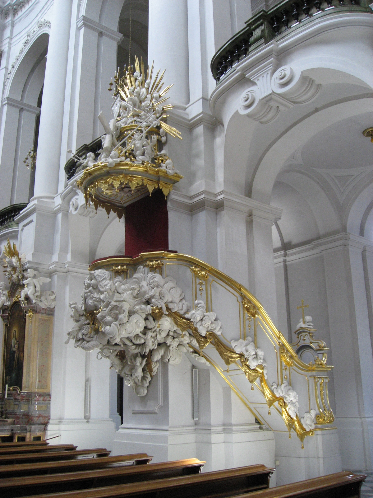 Pulpit in the Katholische Hofkirche Dresden.